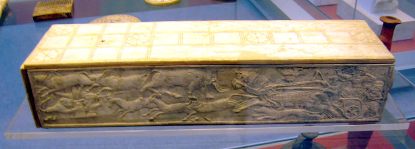 Ivory game board, found at Enkomi, Late Bronze Age, made on Cyprus or in Syria (British Museum)